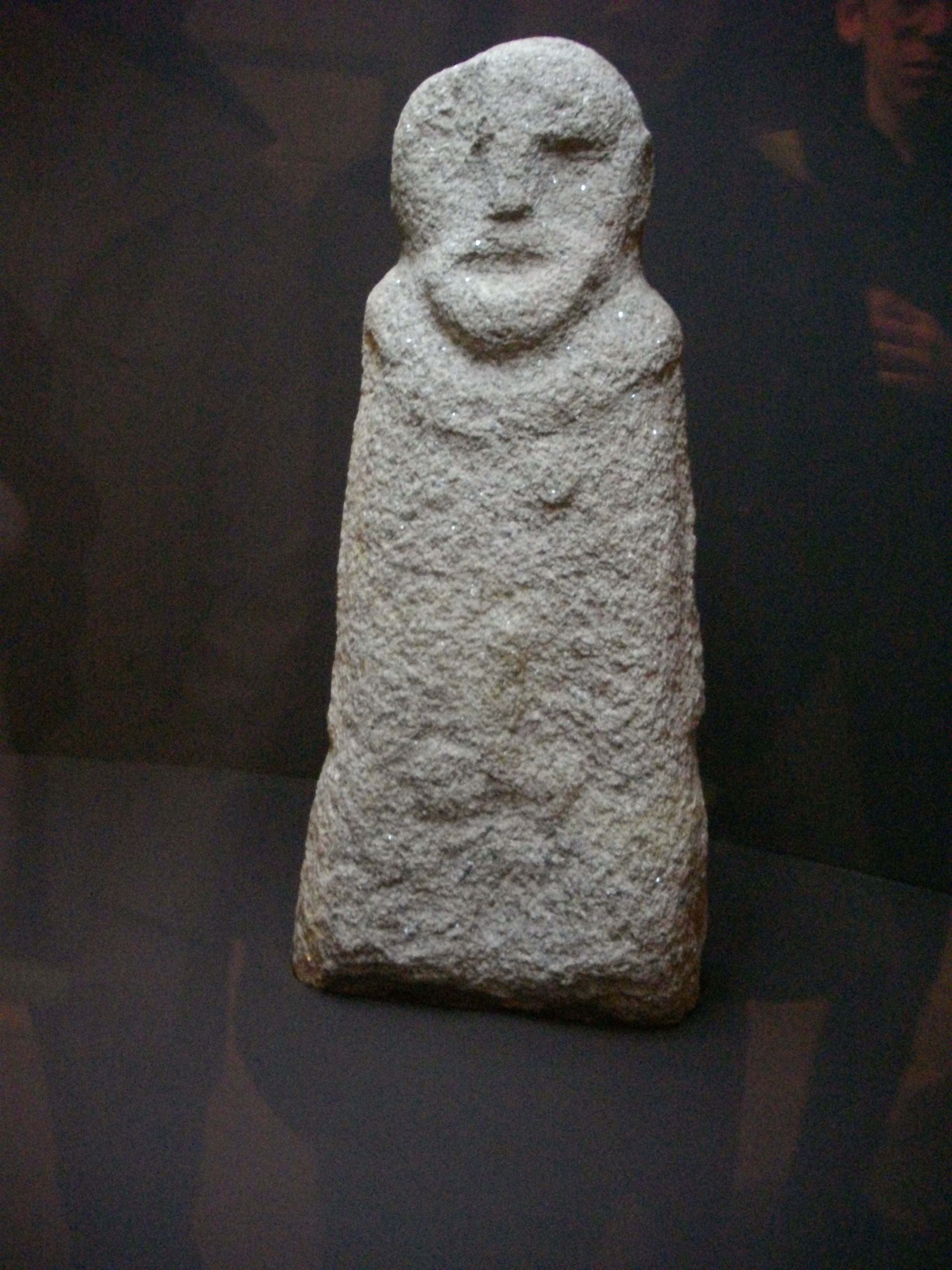 Gallic stele (6th or 5th-century BC), found in Inguiniel (Morbihan, France) and kept in the archeology museum of Vannes (Morbihan)